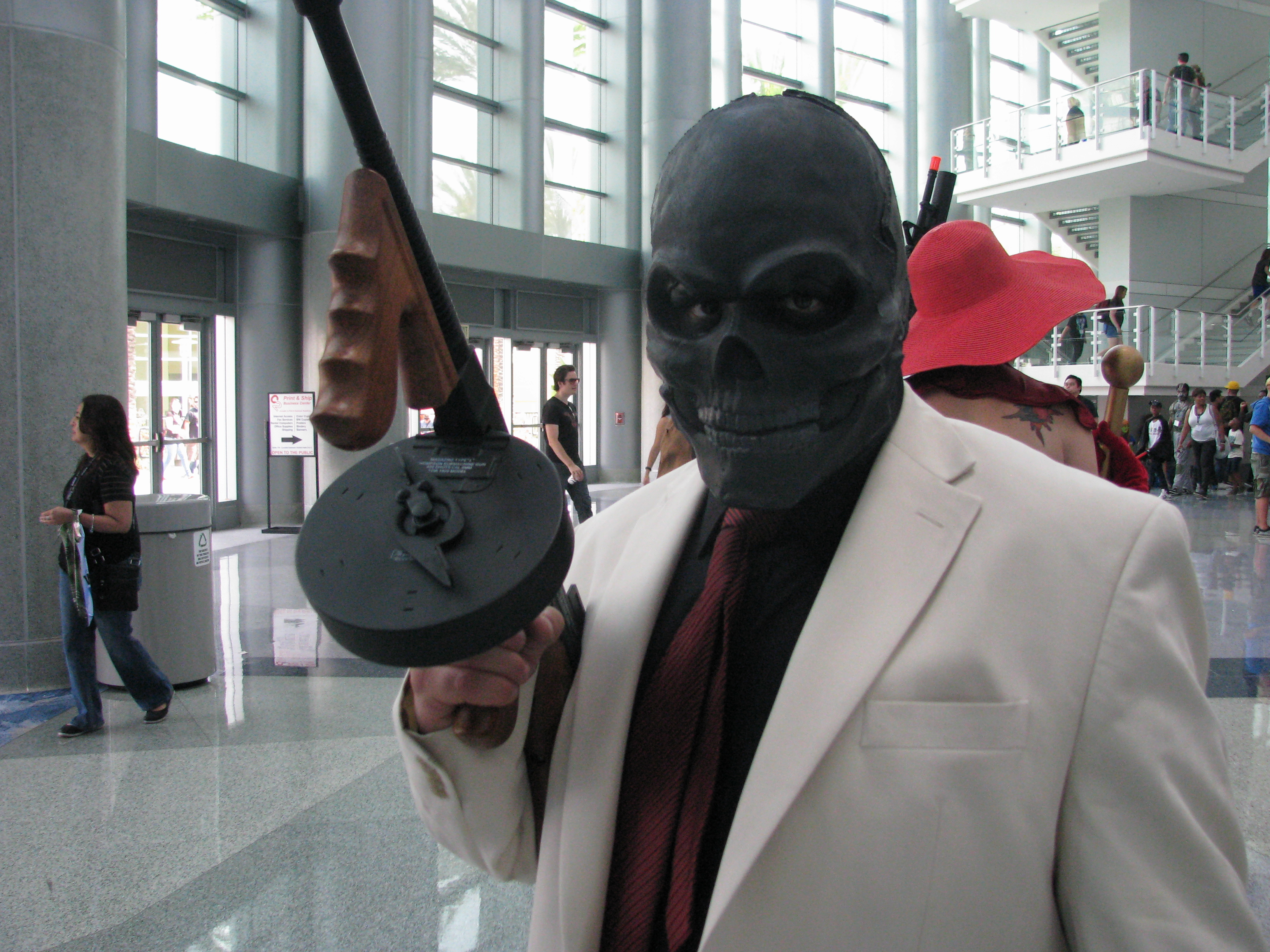 WonderCon 2014 - Black Mask cosplay